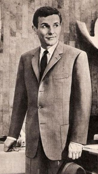 Ante Garmaz in an advertisement in 1965 for the brand "Oscense Ropa Caballeros" from Argentina.